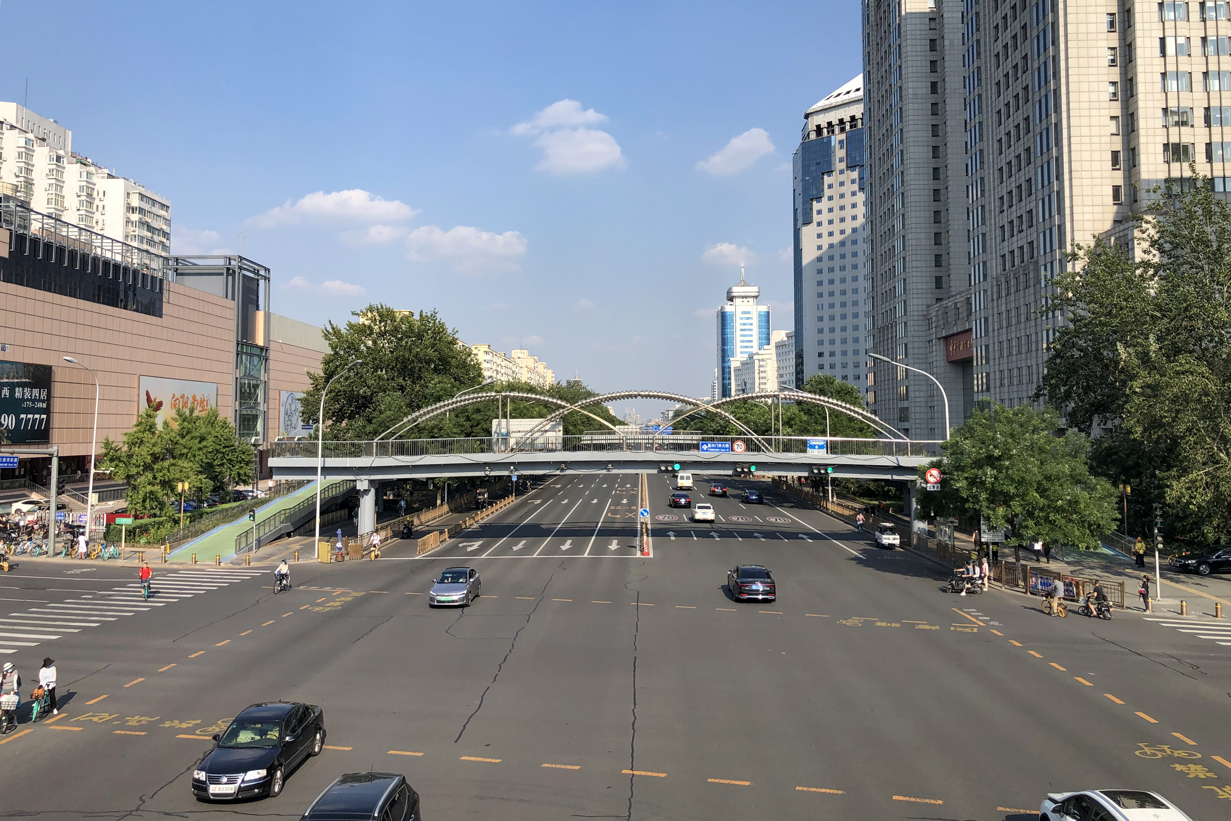 Taken from a pedestrian bridge.